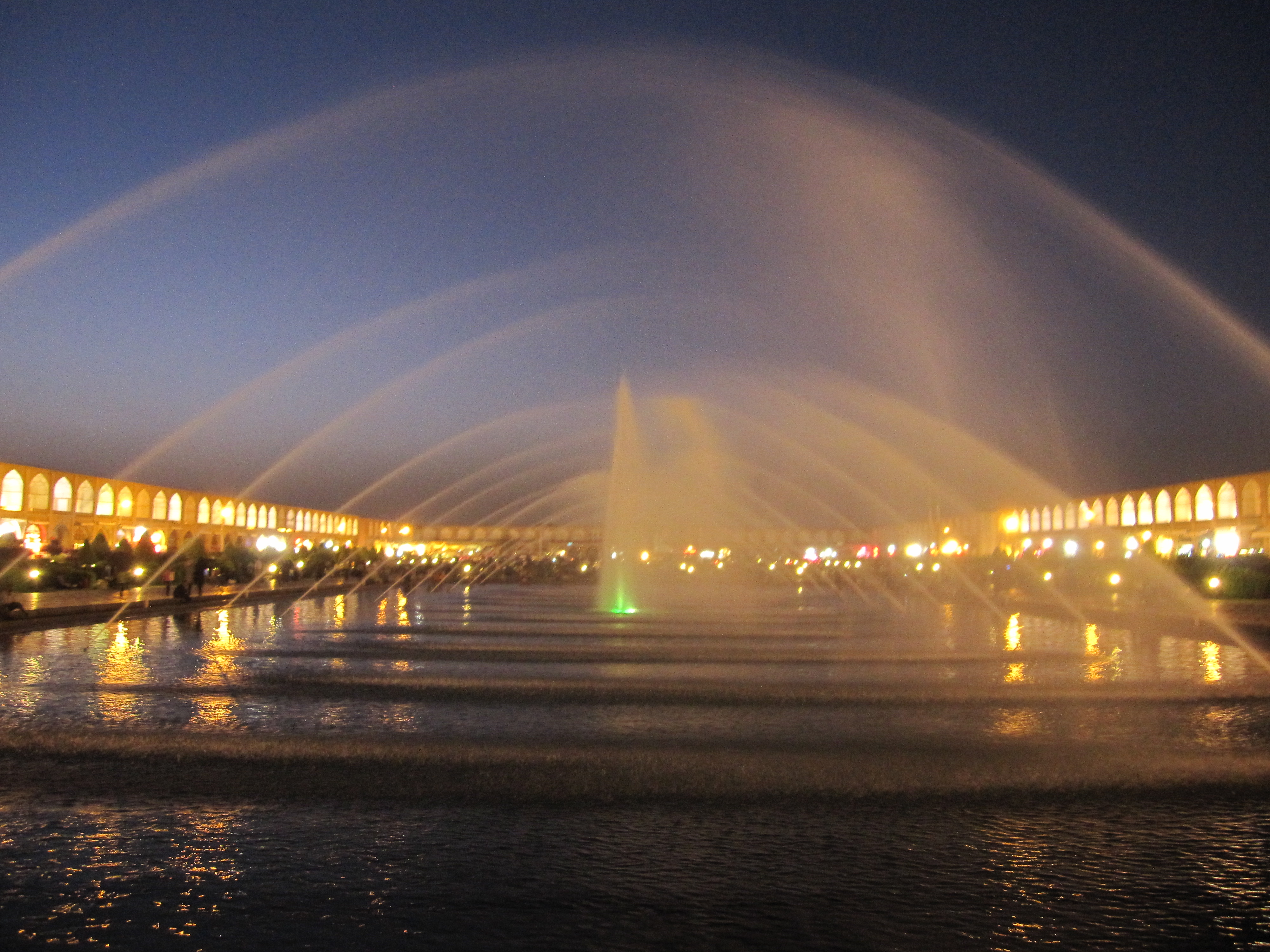 The Naghshe Jahan Square, at night, was built between 1598 to 1629 in Isfahan, Iran.